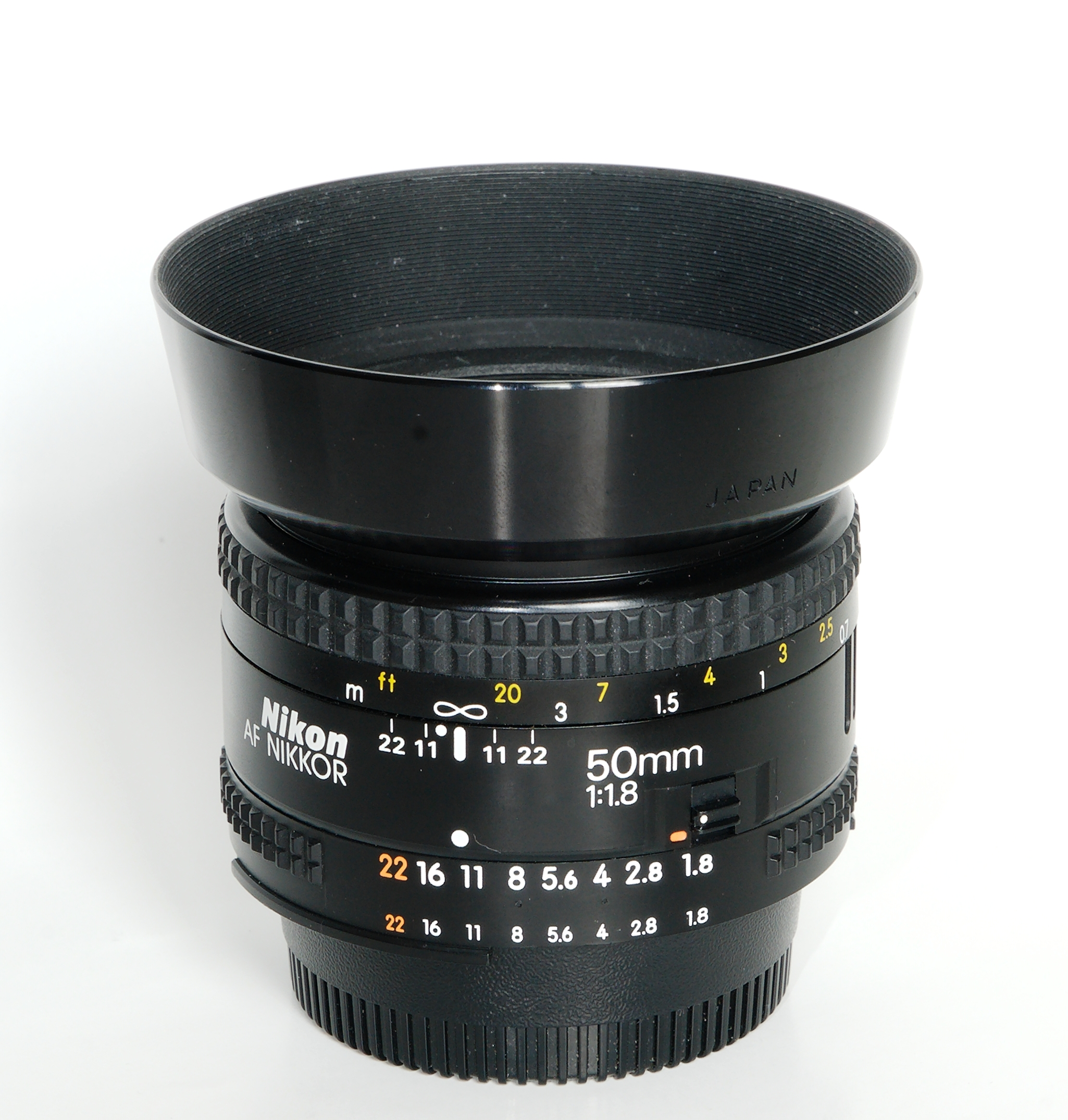 Nikkor 50mm f/1.8 with HN-3 screw-in metal lens hood.